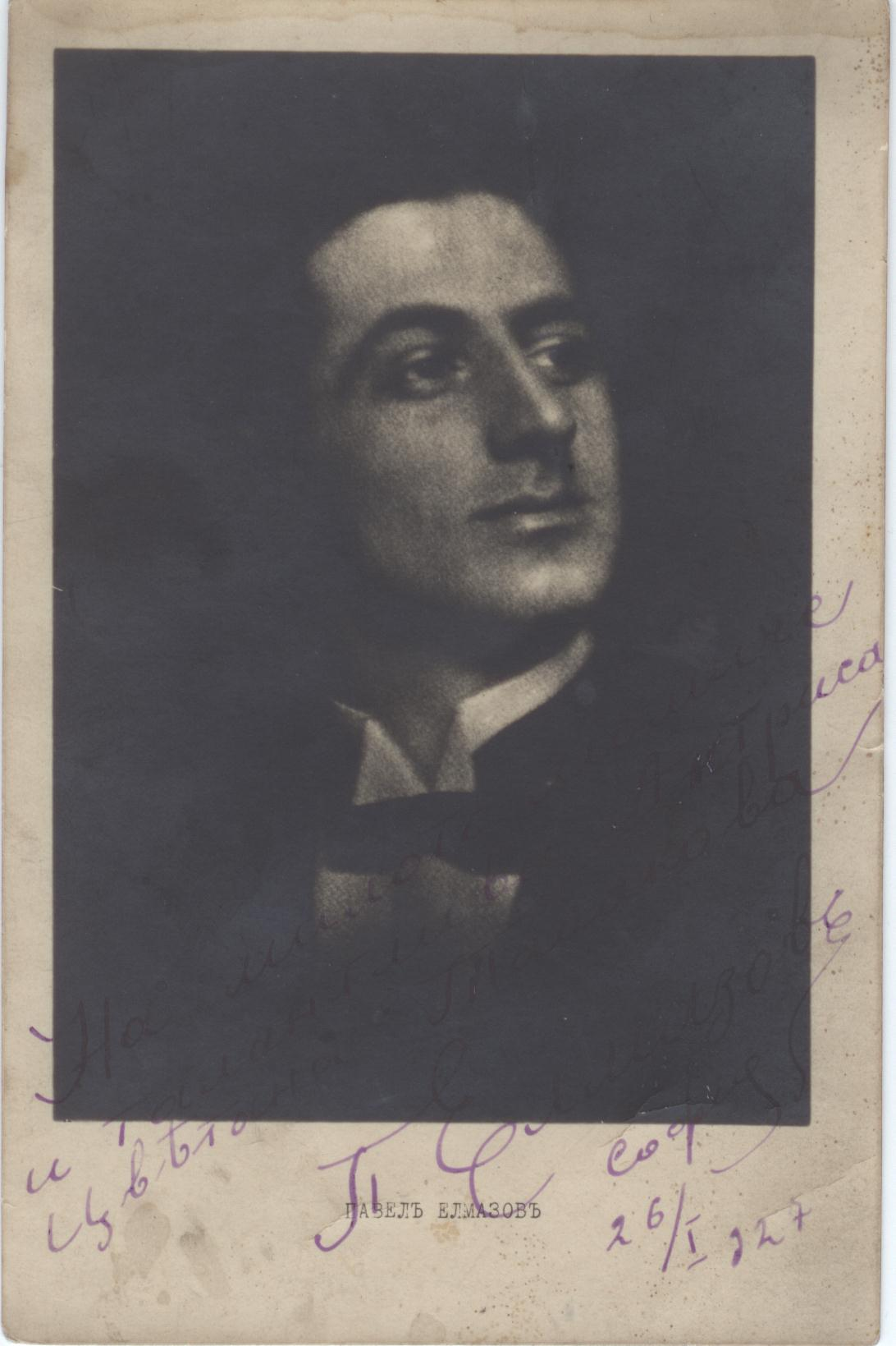 Bulgarian opera singer Pavel Elmazov